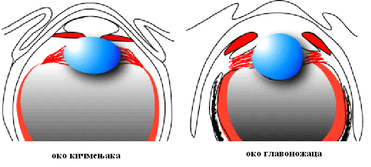 Convergent evolution of the eyes